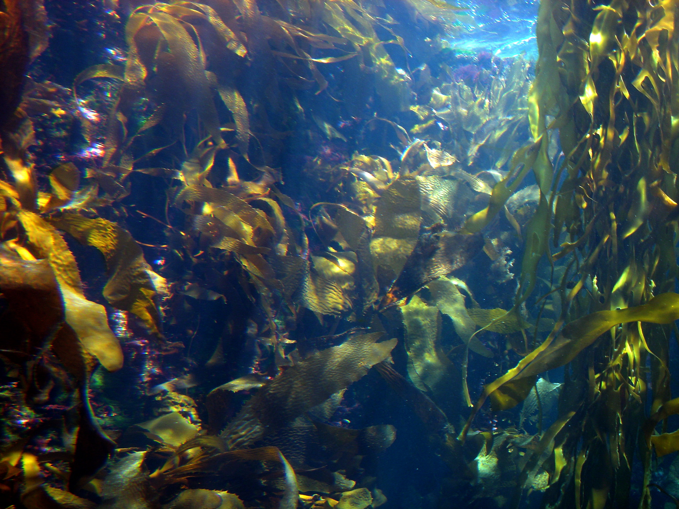 An underwater shot of a kelp forest.